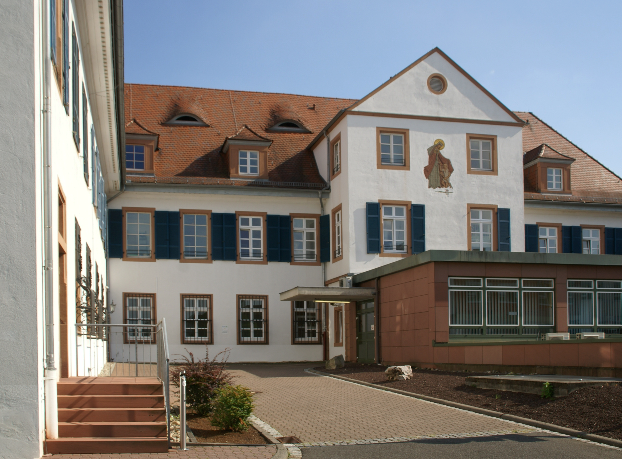 Wasserlos, Schlosshof 1: partial view of the older part of the building complex